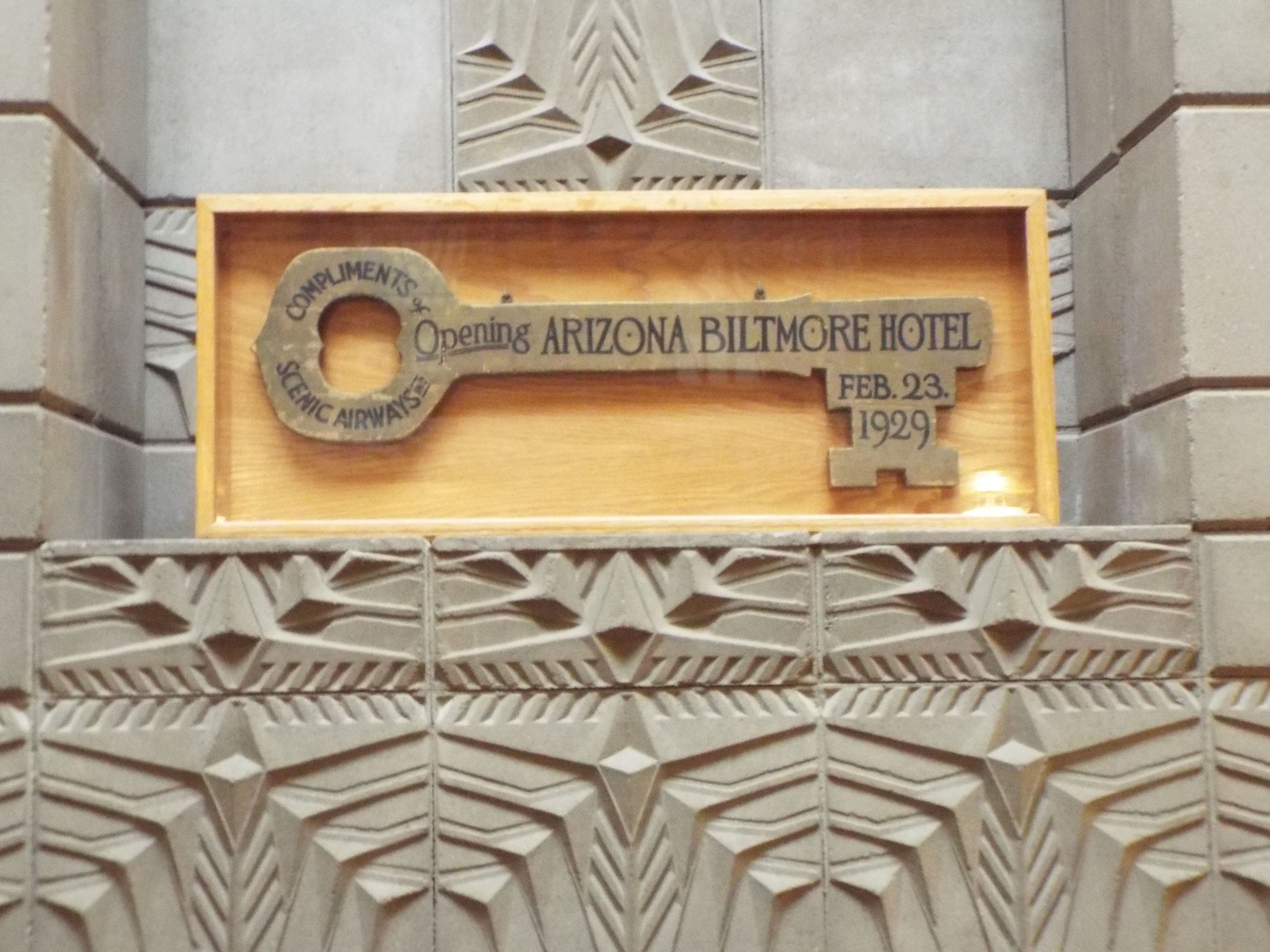 On opening day, Scenic Airlines flew over the Arizona Biltmore Hotel and dropped a wooden key on the roof of the ballroom. The key is on display above the fireplace in the History Room